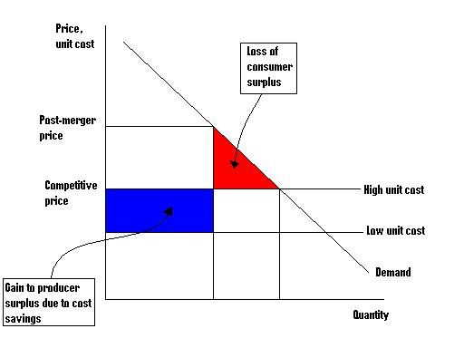 Graph illustrating the Williamson trade-off model